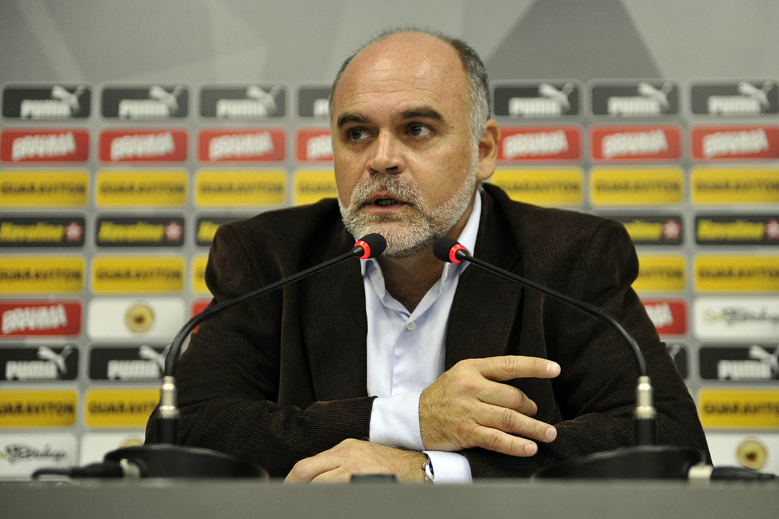 Presidente Botafogo